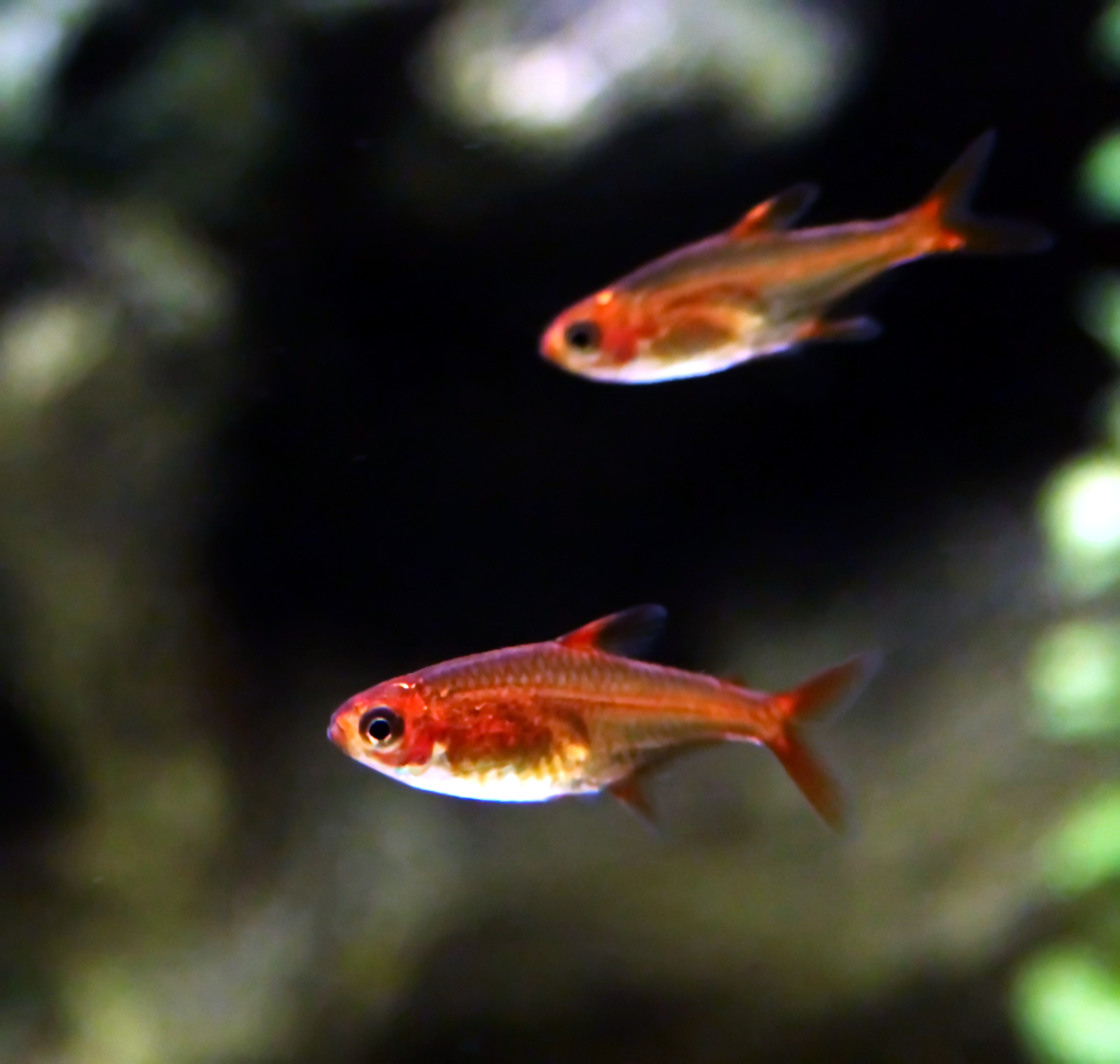 The ember tetra (Hyphessobrycon amandae) is a freshwater fish of the characin family (family Characidae) of order Characiformes. It is native to the Araguaia River basin of Brazil and was discovered around fifteen years ago and named in honor of the fish explorer Heiko Bleher's mother (Amanda Bleher). This species is of typical tetra shape but grows to a maximum overall length of approximately 2 cm (0.8 in).; Most exhibit striking orange and reddish coloration with mild translucency near the pelvic fin. The eye frequently mirrors the color of the fish and is outlined in black. The fish's natural diet consist of small invertebrates and plants. Although somewhat hard to find in fish stores, H. amandae is commonly kept as an aquarium fish by hobbyists.